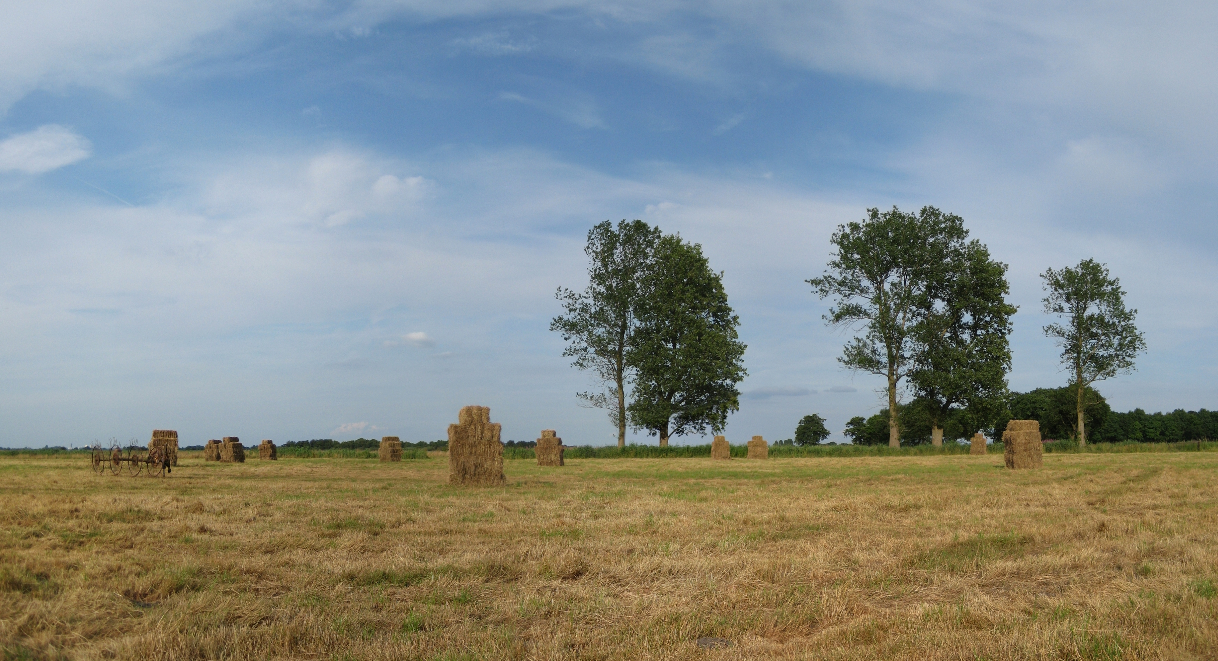 View of the Polder Leutingewolde, a polder in the municipality of Noordenveld in the Dutch province of Drenthe.